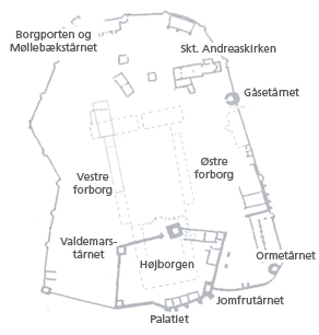 Ground plan of the ruins of Vordingborg Castle